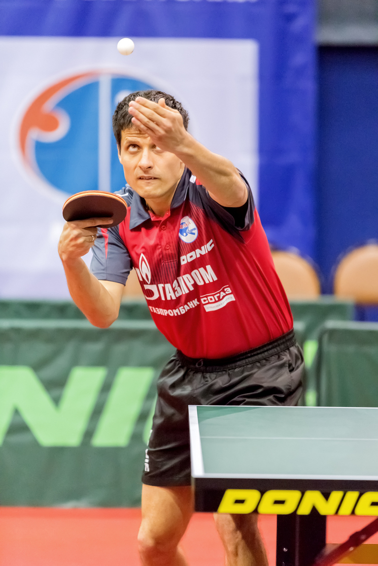 Alexey Smirnov during final match of Russian premier league (season 2012-13) in Moscow